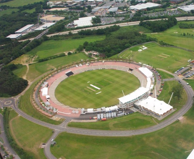 Aerial view of Rose Bowl Cricket Ground Taken during a birthday flying lesson.Courtesy of my son.